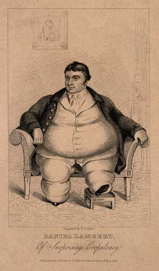 Portrait of Daniel Lambert, the most corpulent man of his time. The became an attraction in the first decade of the 19th century, being portrayed by several artists. This engraving by Robert Cooper was published in 1821, 12 years after Lambert#s death